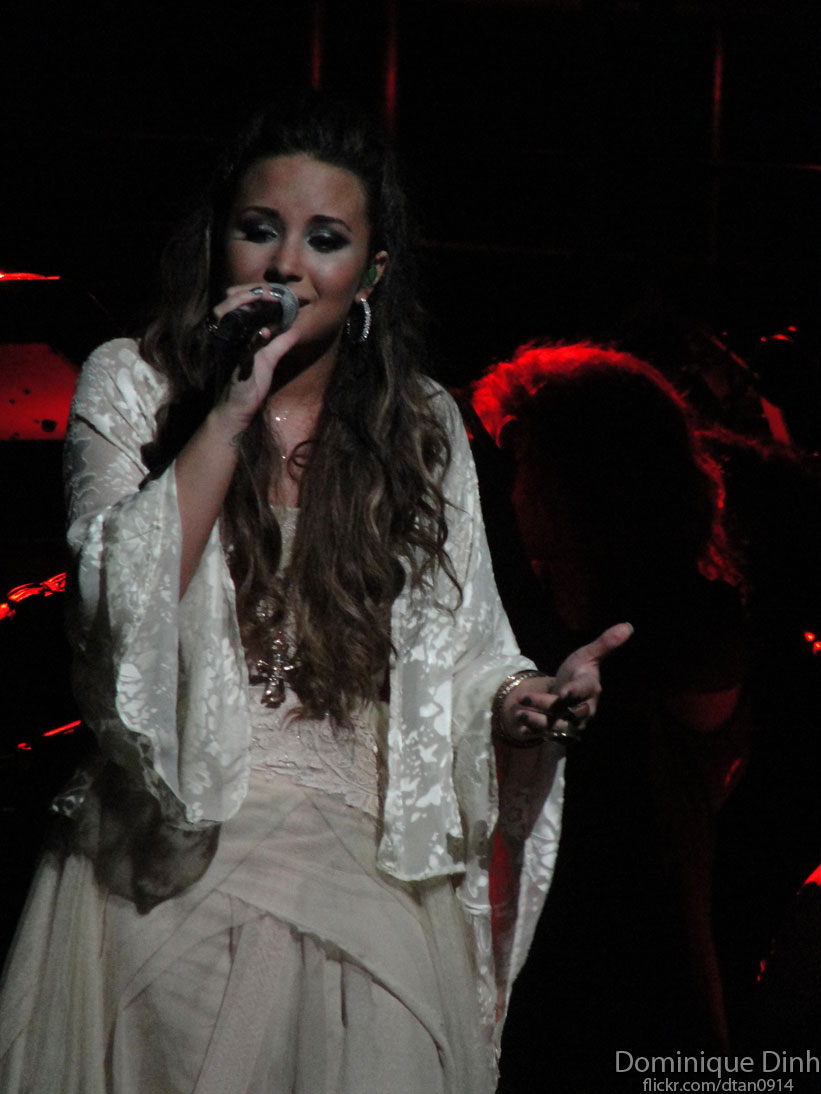 Demi Lovato performing "How to Love" at Club Nokia in Los Angeles